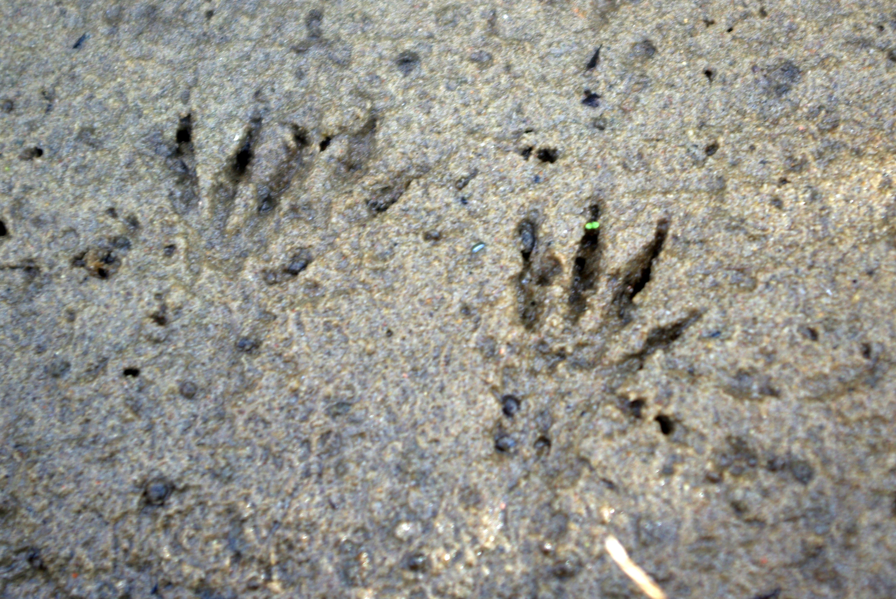 Southwestern Water Vole (Arvicola sapidus) tracks in river Porma bank, near Boñar (León, Spain).